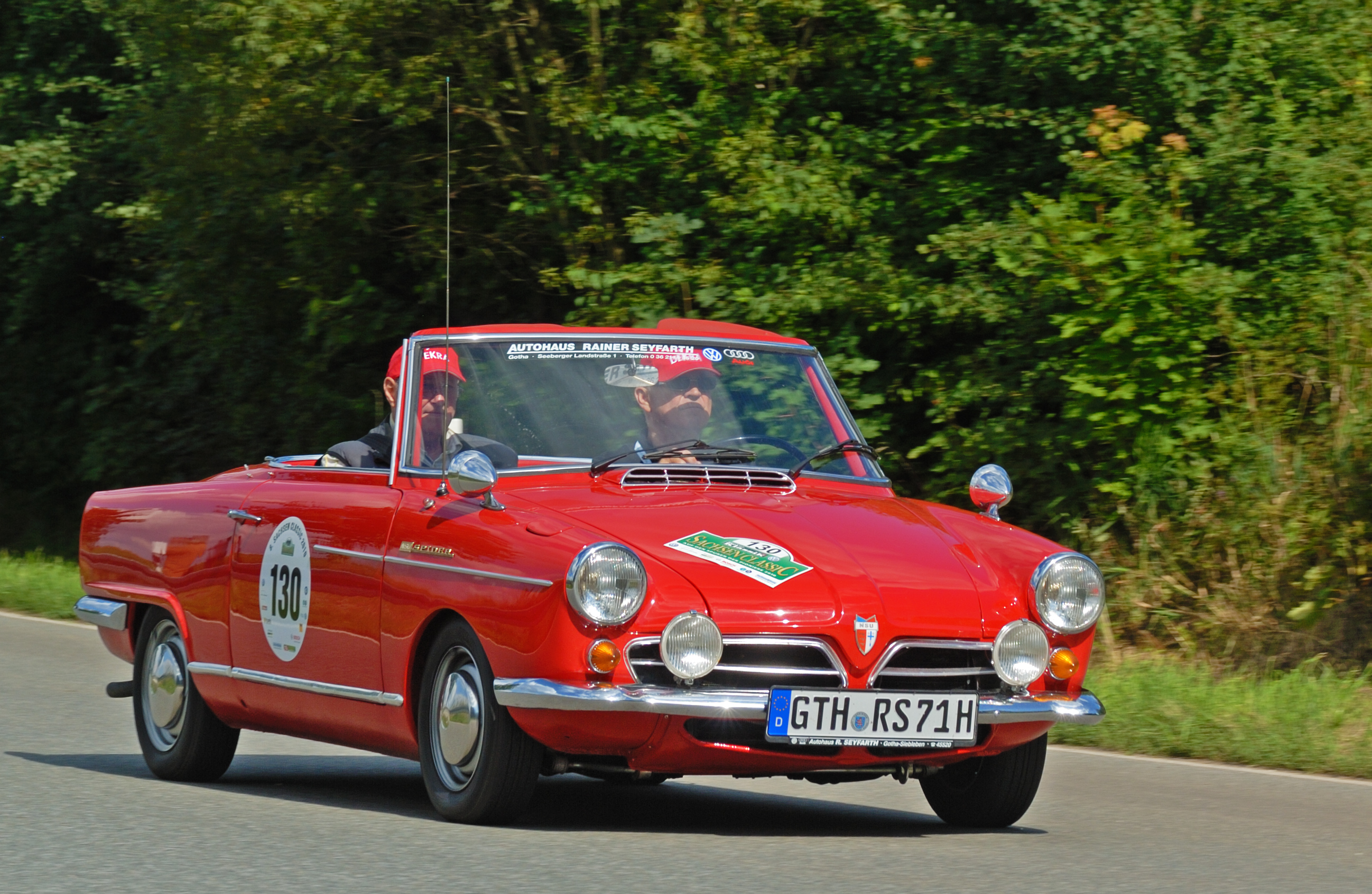 NSU Wankel-Spider from 1967 during the Saxony Classic Rallye 2010.